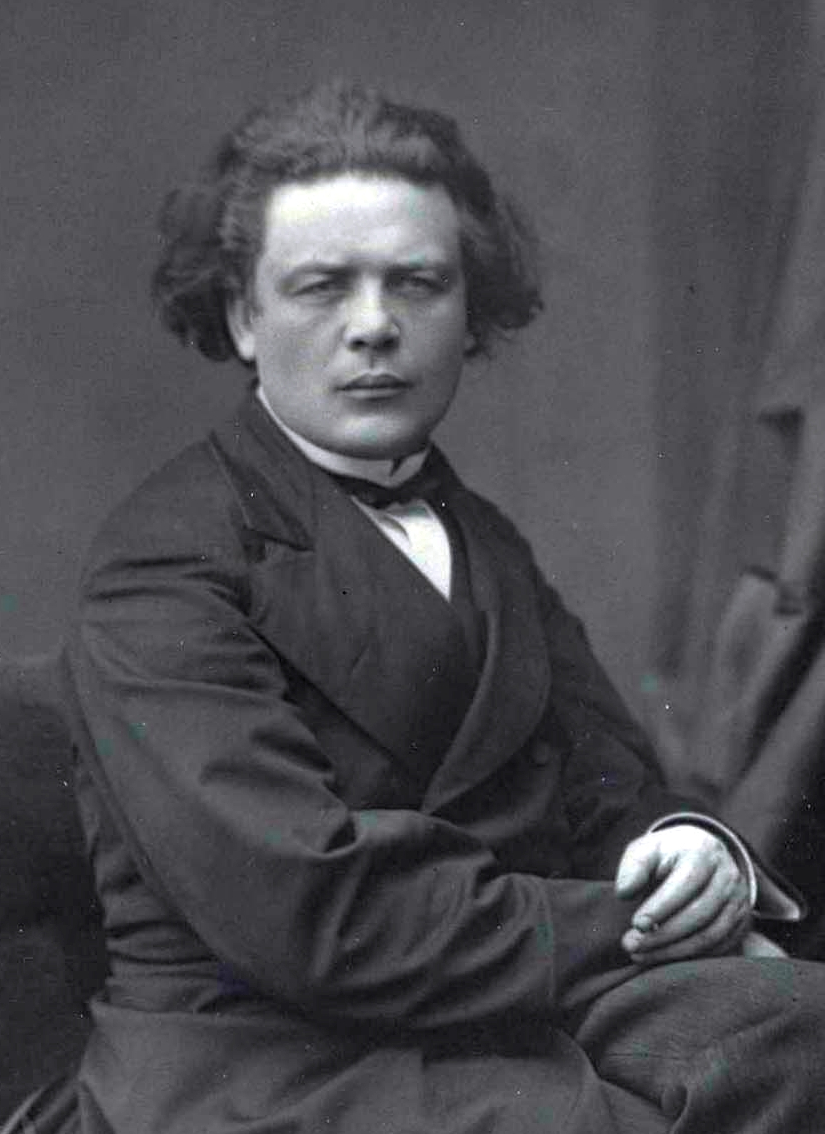 Anton Rubenstein.1829-1894.